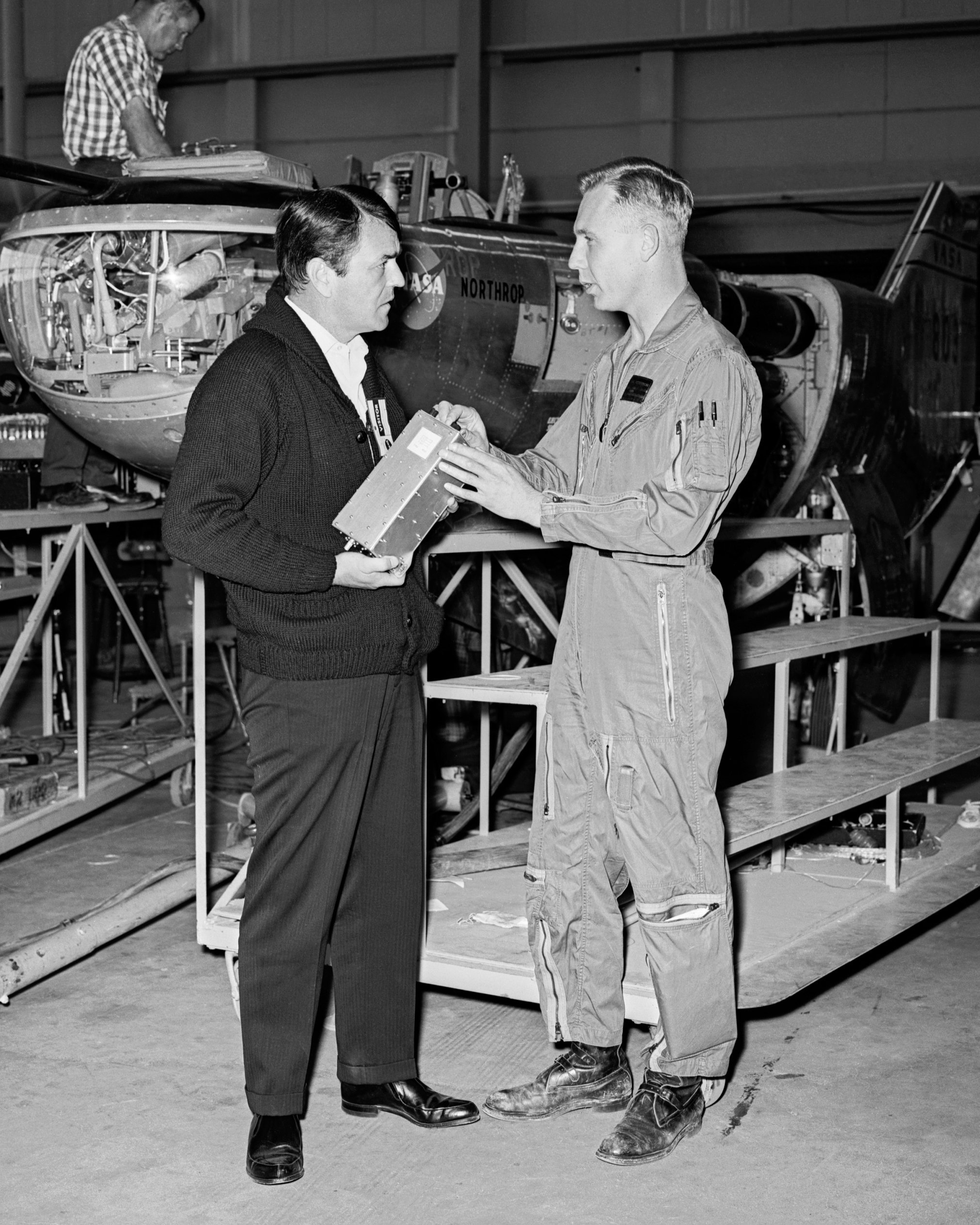 Canadian actor James Doohan (left) visiting NASA Dryden Flight Research Center at Edwards, California, is discussing the M2-F2 Lifting Body with NASA pilot Bruce Peterson